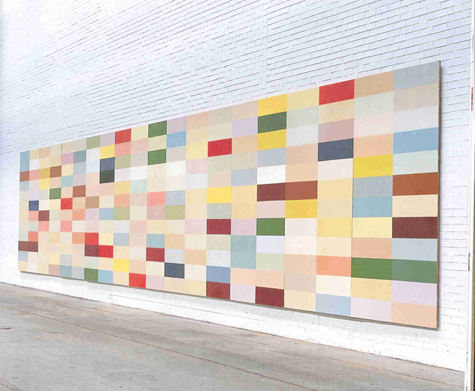 Keith Coventry, 1938